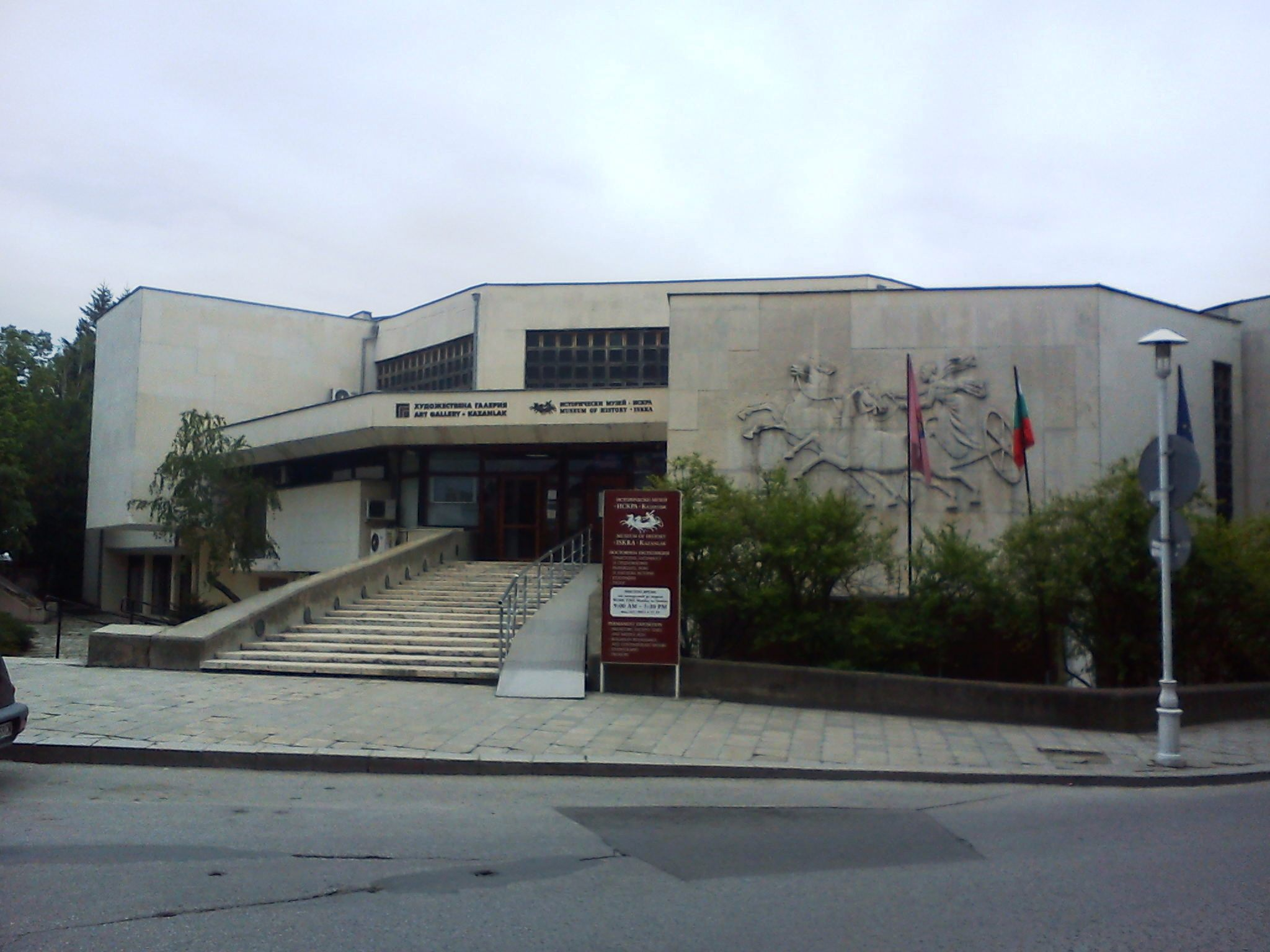 History Museum Kazanlak